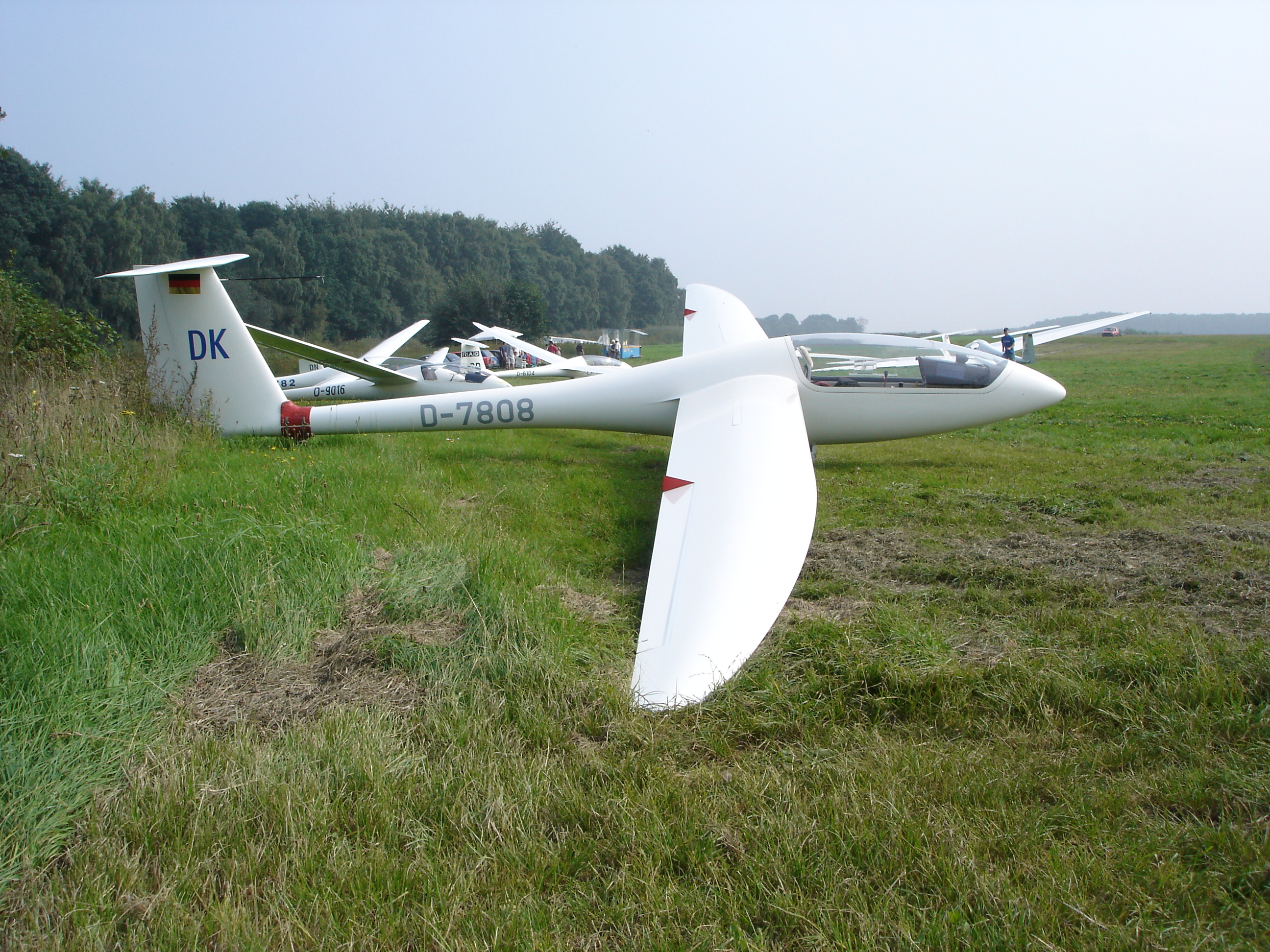 PZL Bielsko SZD-55-1 glider